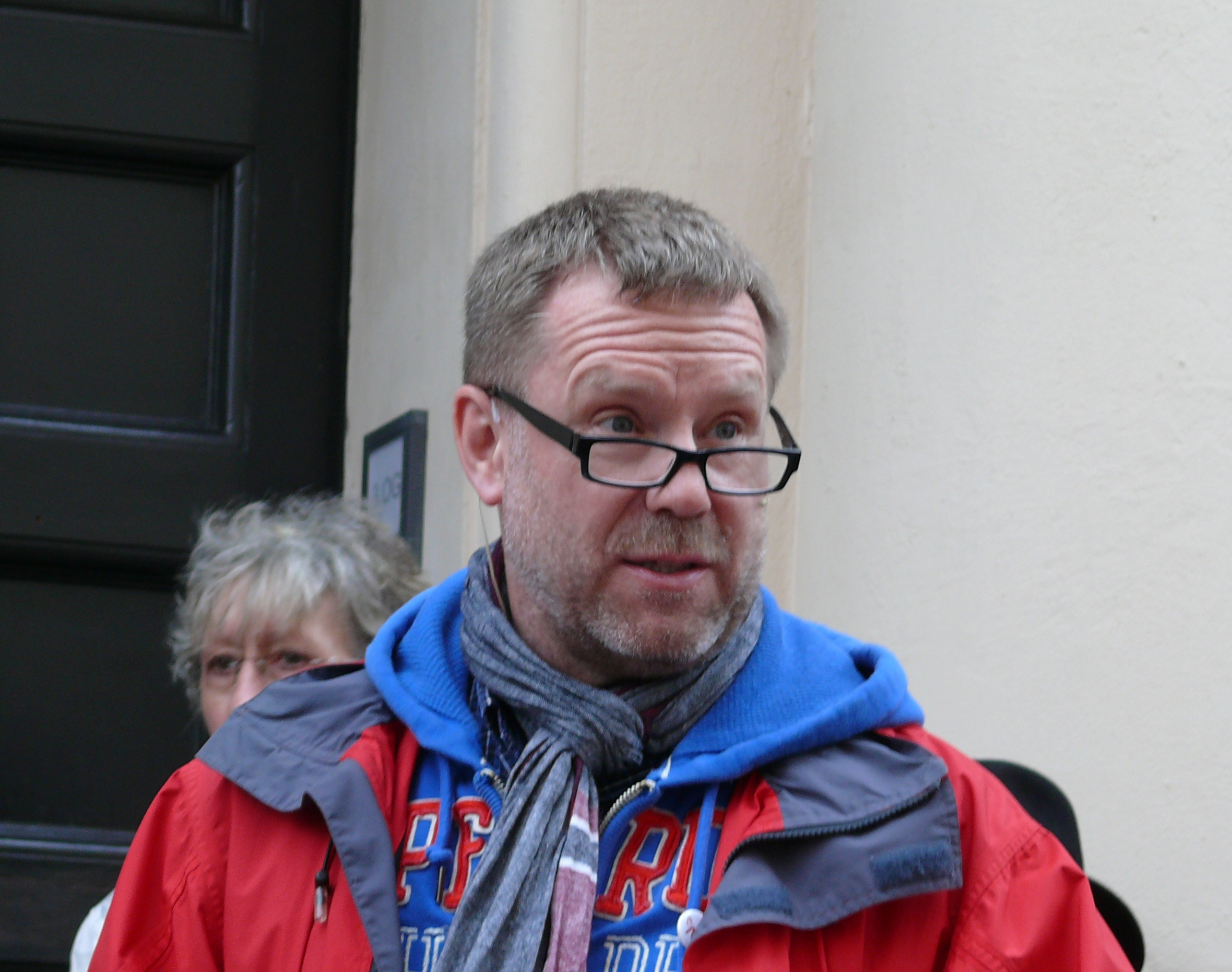 Reinhard Naumann Bezirksbürgermeister von Berlin Charlottenburg-Wilmersdorf